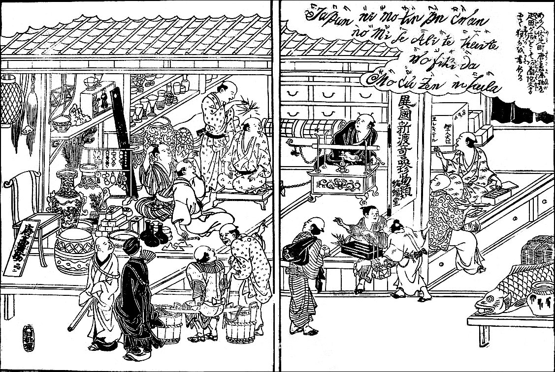 "Karamonoya", or imported curio store. Customers on the left page are participating in a demonstration with a generator of static electricity. Volume 4 first part, Settsu meisho zue, edited by Akisato Ritō, with illustration by Niwa Tōkei. Plate 36, 1798.